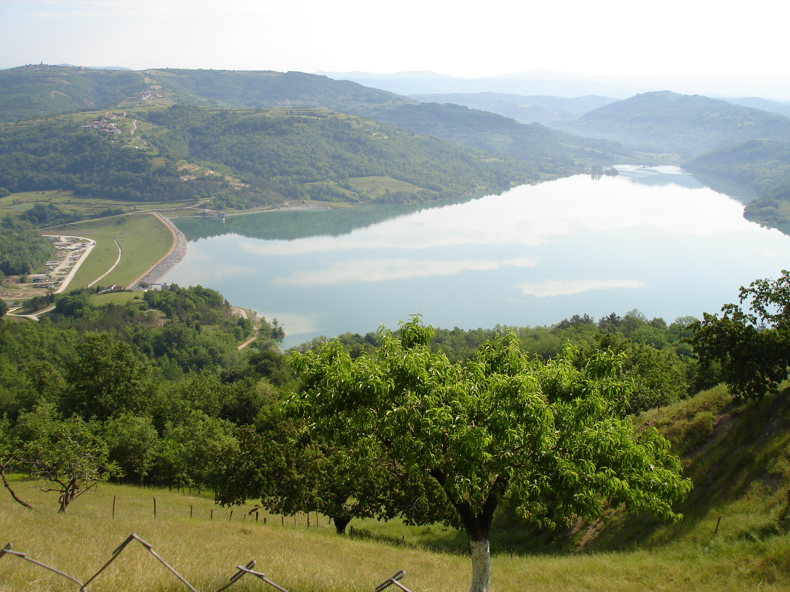 Reservoir Butoniga, Istria